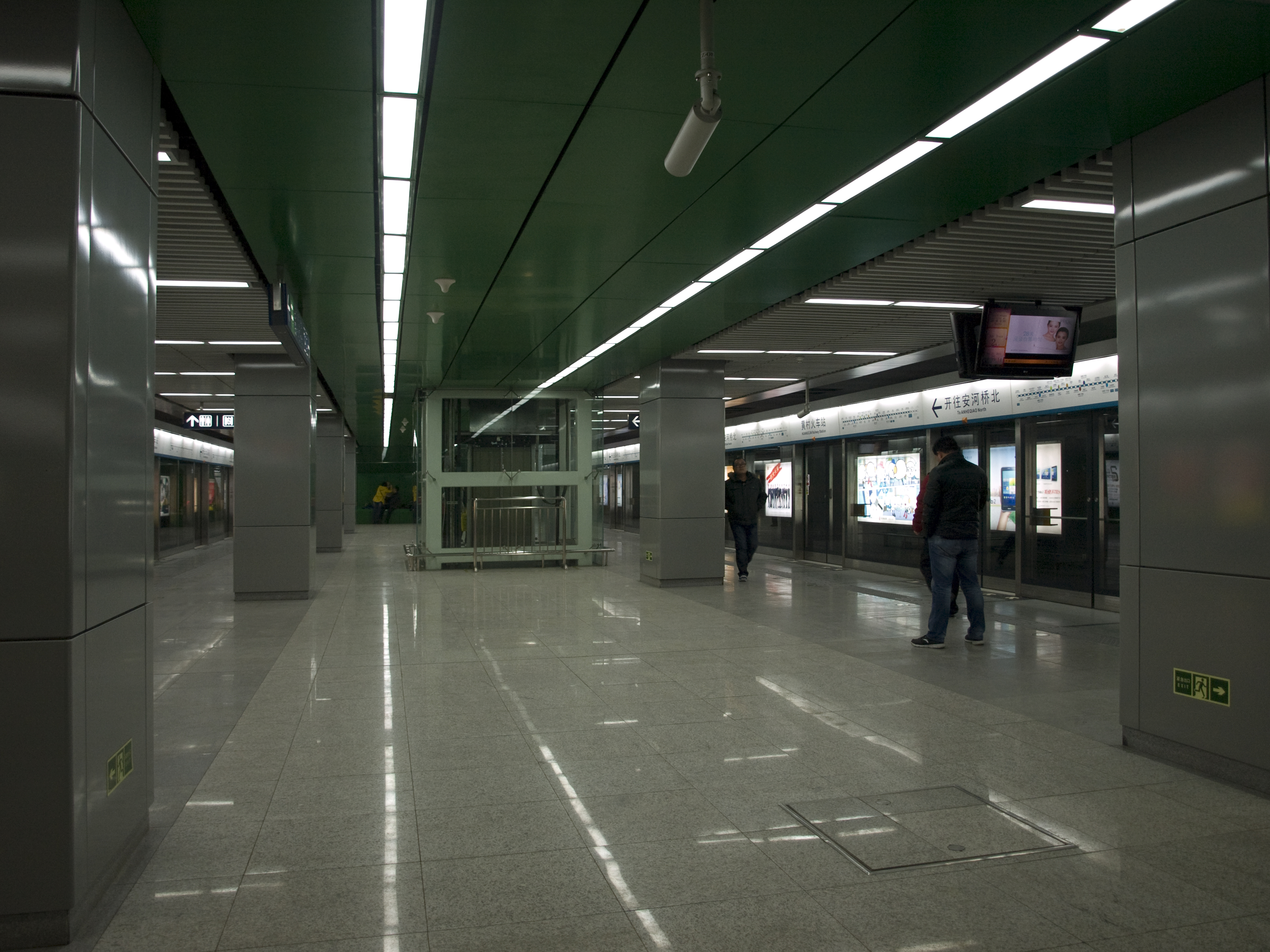 Huangcun Railway Station, Beijing Subway